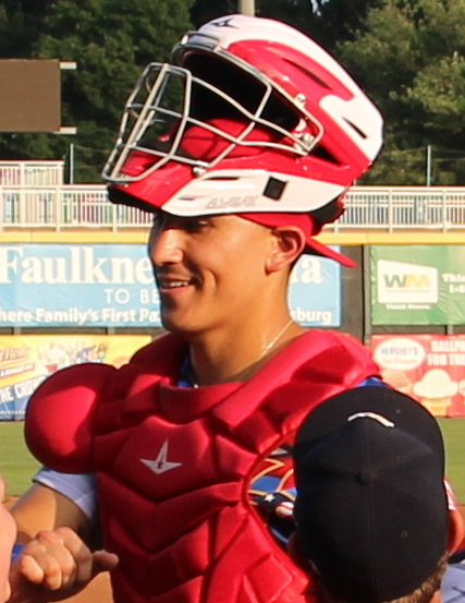 MWR Susquehanna and NSA Mechanicsburg joined forces and hosted a very special Military Night at the Harrisburg Senators Arena on Jul. 19, 2019. This night featured a special Military Opening Ceremony, Military Service Members throwing the Ceremonial First Pitches, the Senators Baseball Game, MARVEL Super Hero Day for the kids, and post-game fireworks! Pre-game ceremonies began at 6:30 p.m. leading up to the game at 7 p.m. Active Duty Military Service Members received one (1) free ticket to attend and all other DoD civilians, Reservists, National Guard, retired military personnel, and family members purchased discounted tickets for $9 each.